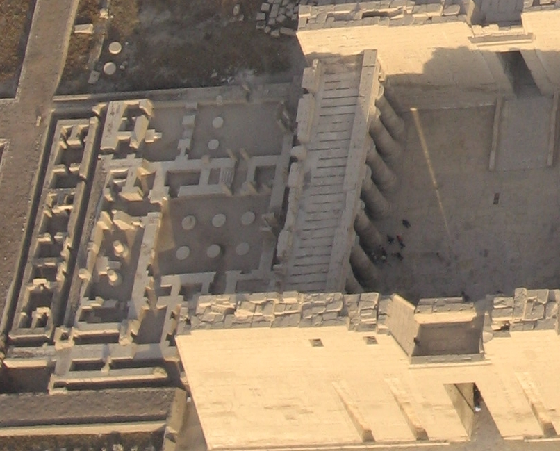 Aerial view of the palace of Ramses III at Medinet Habu - Thebes - 20th dynasty of Egypt